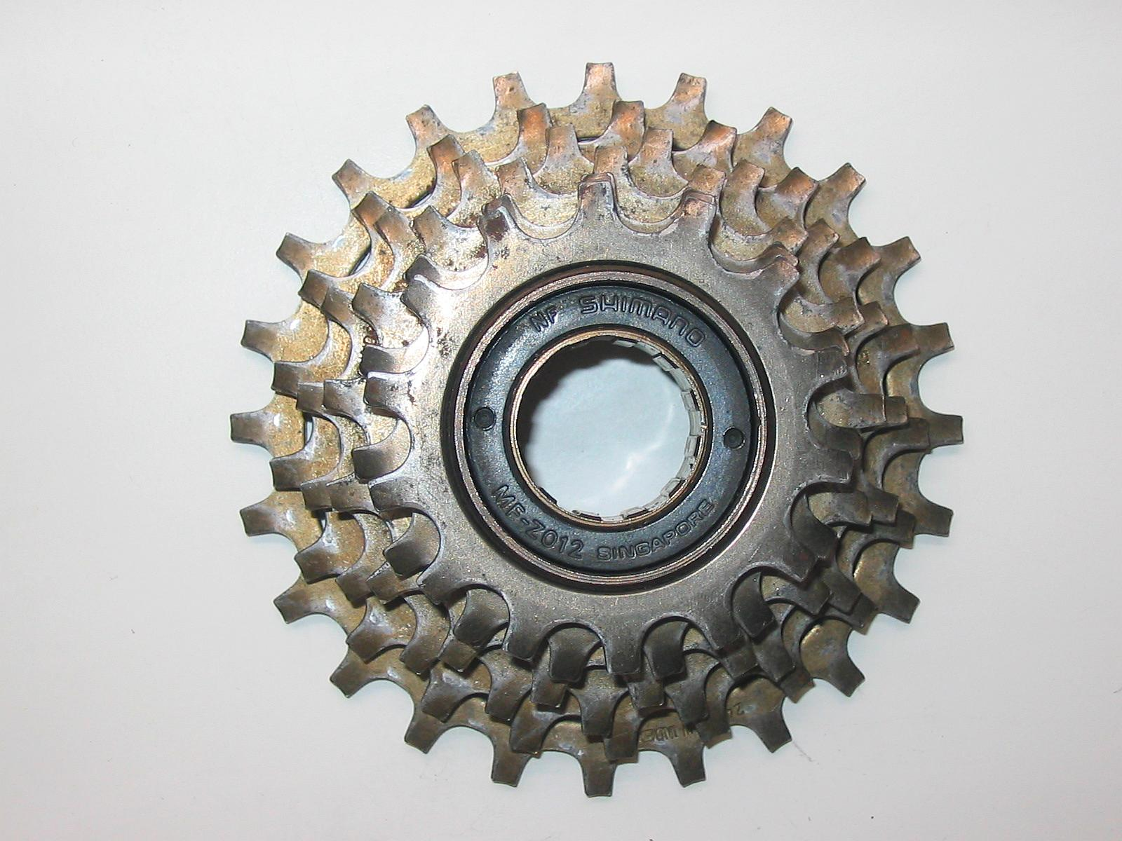 Shimano threaded freewheel